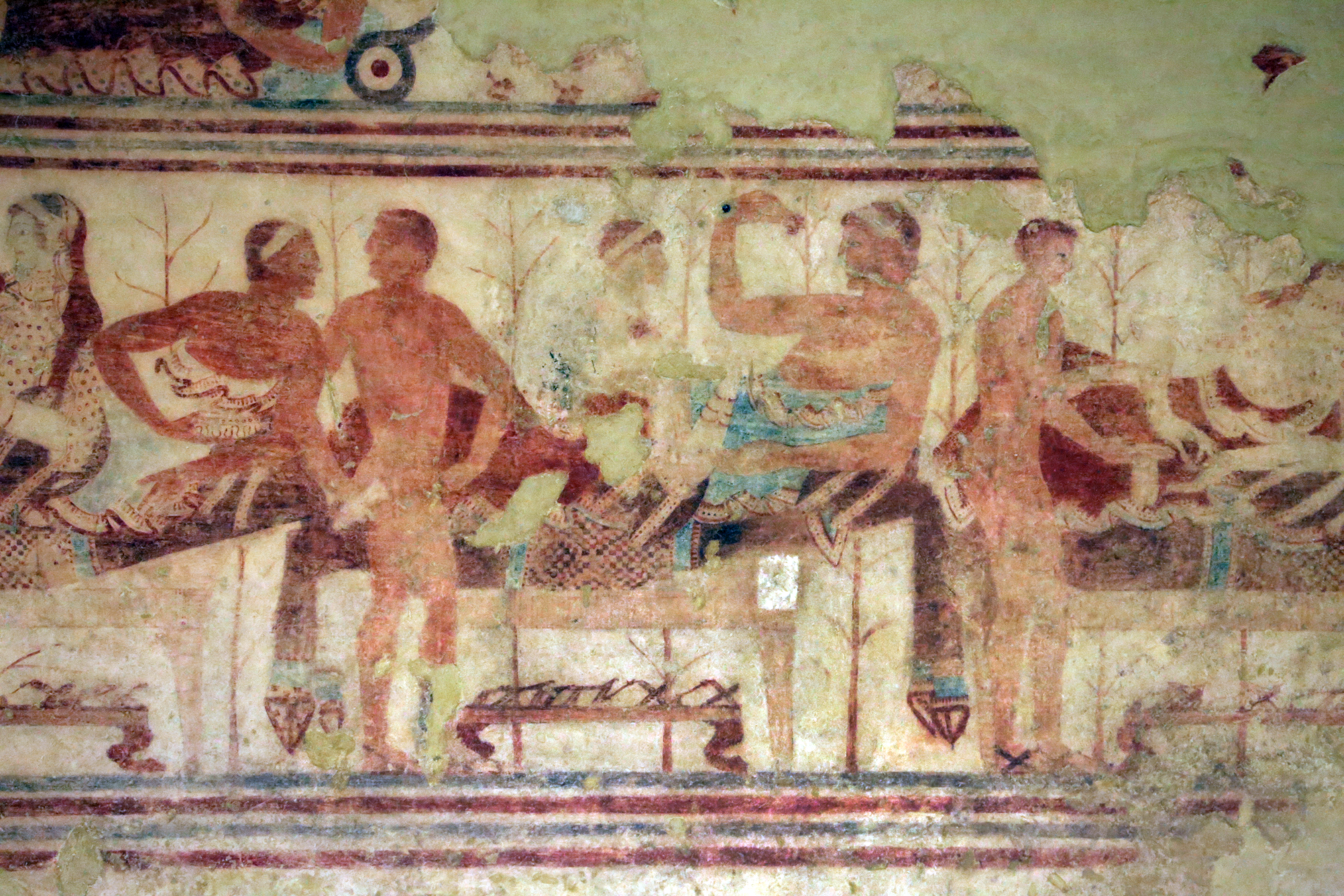 Etruscan antiquities the Museo archeologico nazionale (Tarquinia)